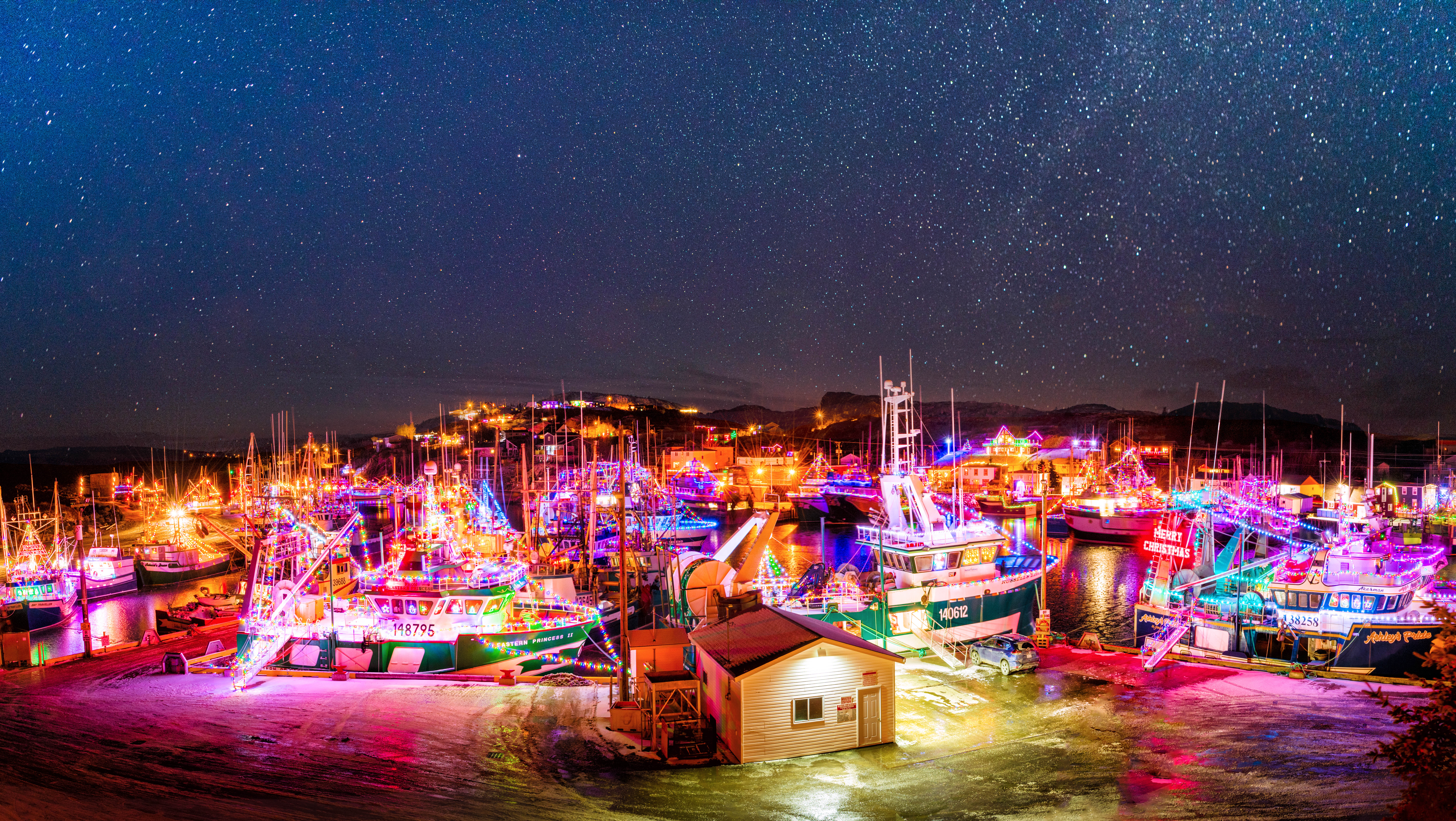 Port de Grave Boat Lighting is an annual folk festival for Newfoundlanders to celebrate their Christmas. This folk event has been going on for around 10 years. The boats in Port de Grave put their lights on each year in early December and the lights last till early January. Thousands of people across Canada come to visit this boat lighting festival each year, and some even come outside of Canada. I took this photo on a quiet and clear night when the stars were so bright. This photo has been taken in the country: Canada